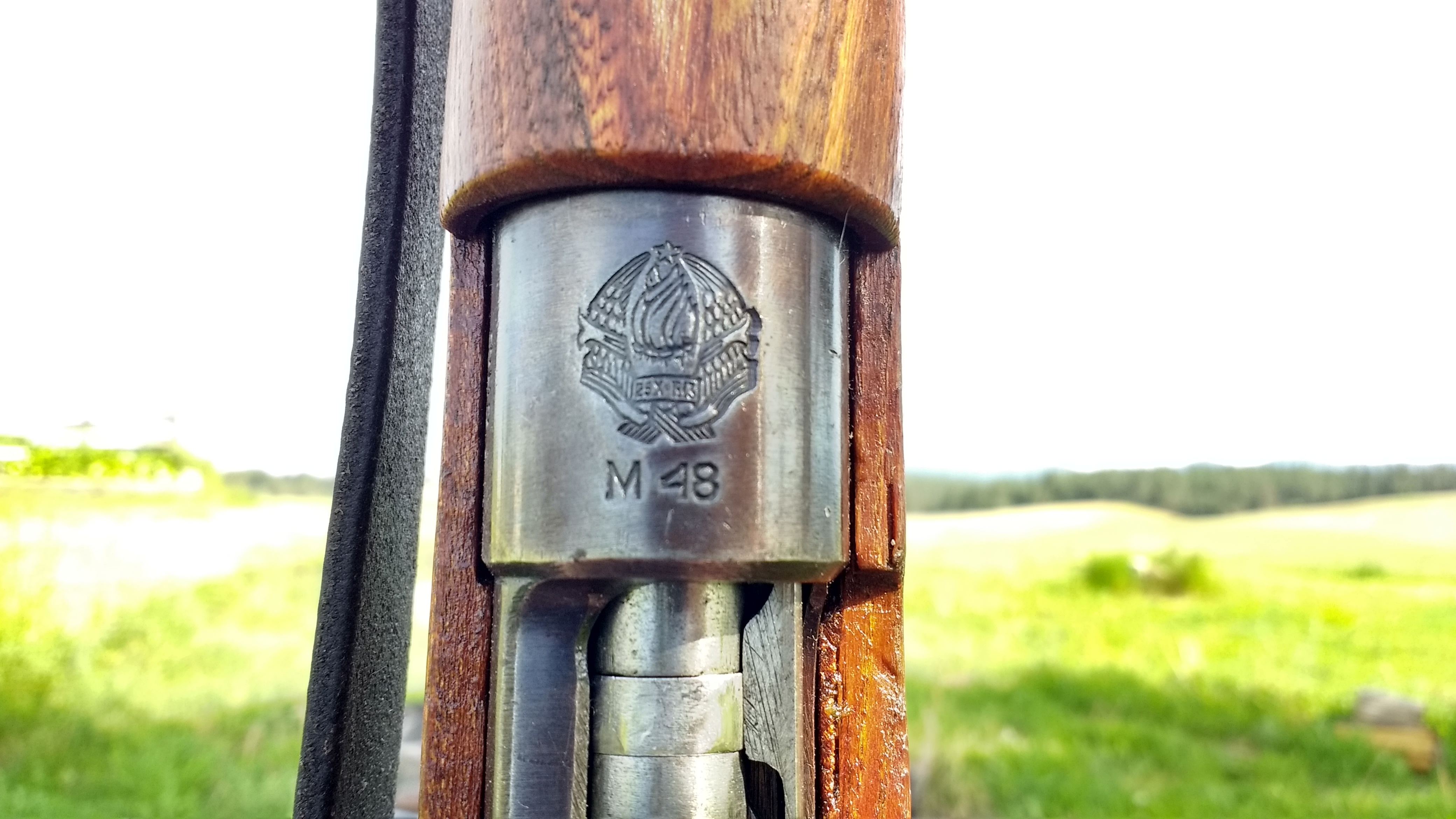 Yugoslavian M48 Receiver Crest